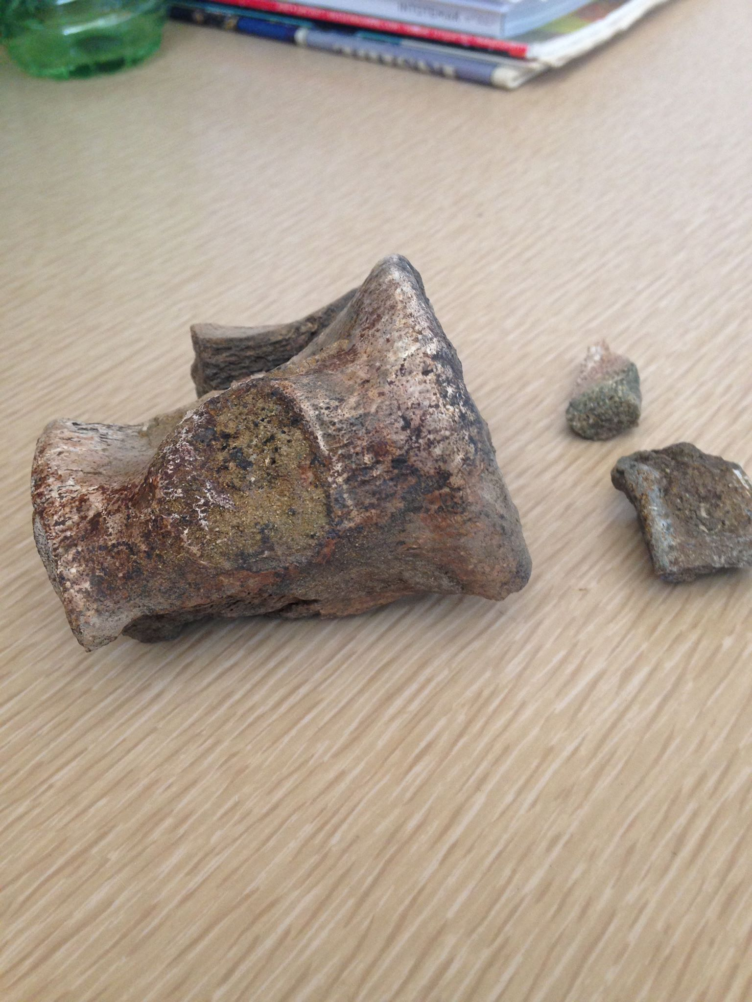 Dolichorhynchops herschelensis vertebrae from 2017